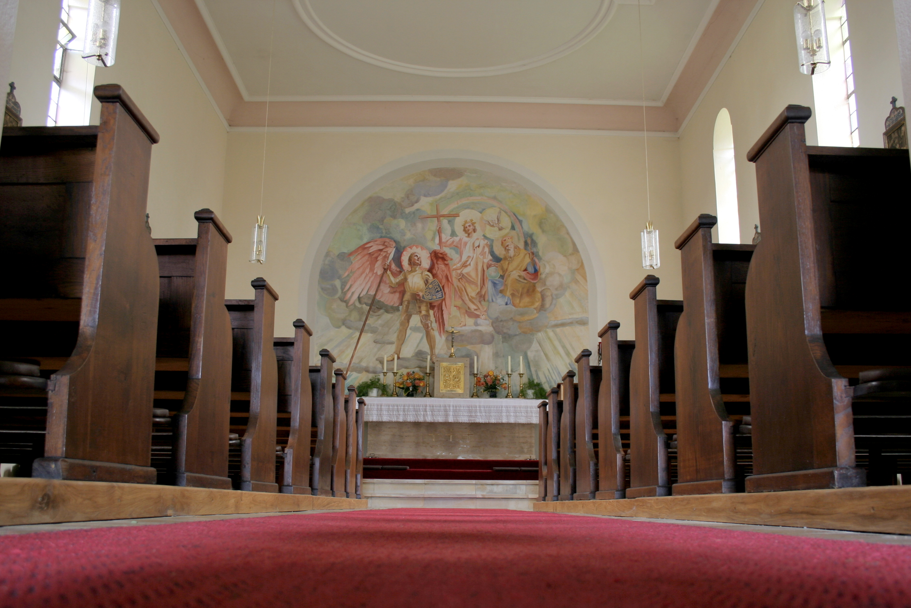 Heritage Building; Germany; Bavaria; Upper Palatinate; administrative district Neustadt. a.d.Waldnaab Waldthurn Albersrieth catholic church St. Michael (D-3-74-165-17)This is a photograph of an architectural monument.